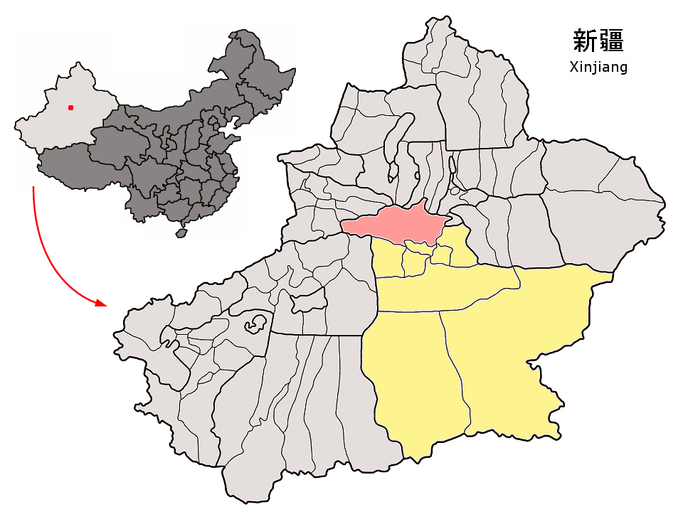 Location of Hejing County (pink) and Bayin'gholin Prefecture (yellow) within Xinjiang autonomous region of China Map drawn in september 2007 using various sources, mainly : Xinjiang Uygur autonomous region administrative regions GIS data: 1:1M, County level, 1990 Xinjiang Counties map from